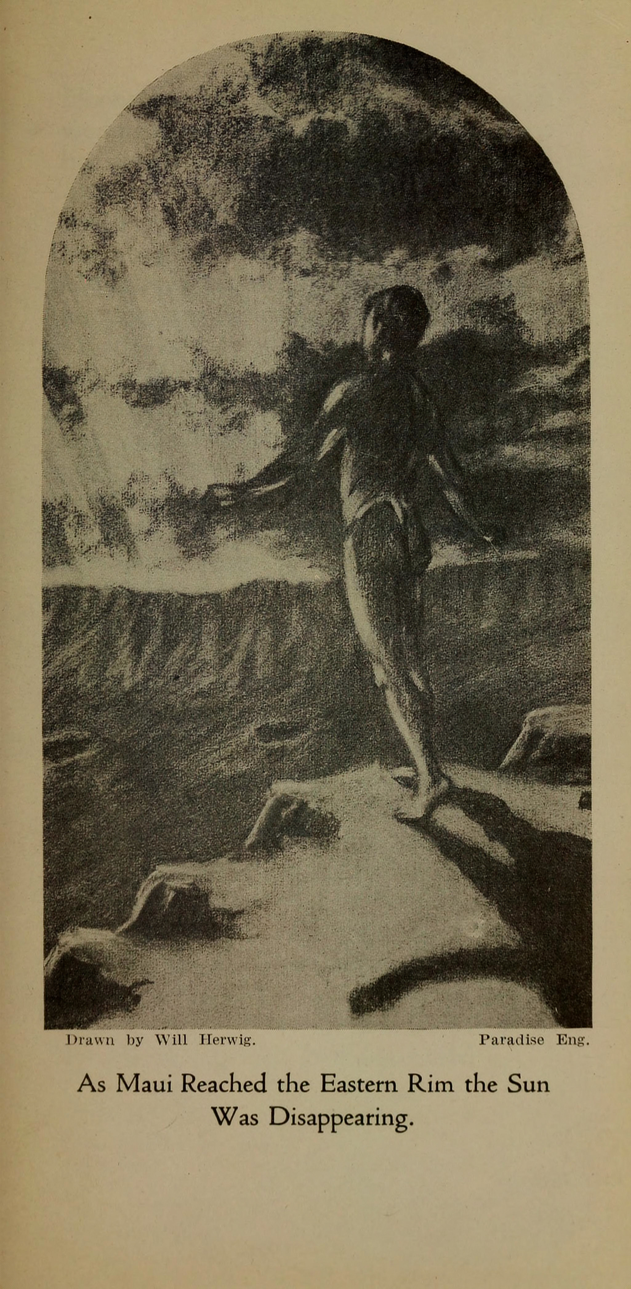 As Maui Reached the Eastern Rim the Sun Was Disappearing.